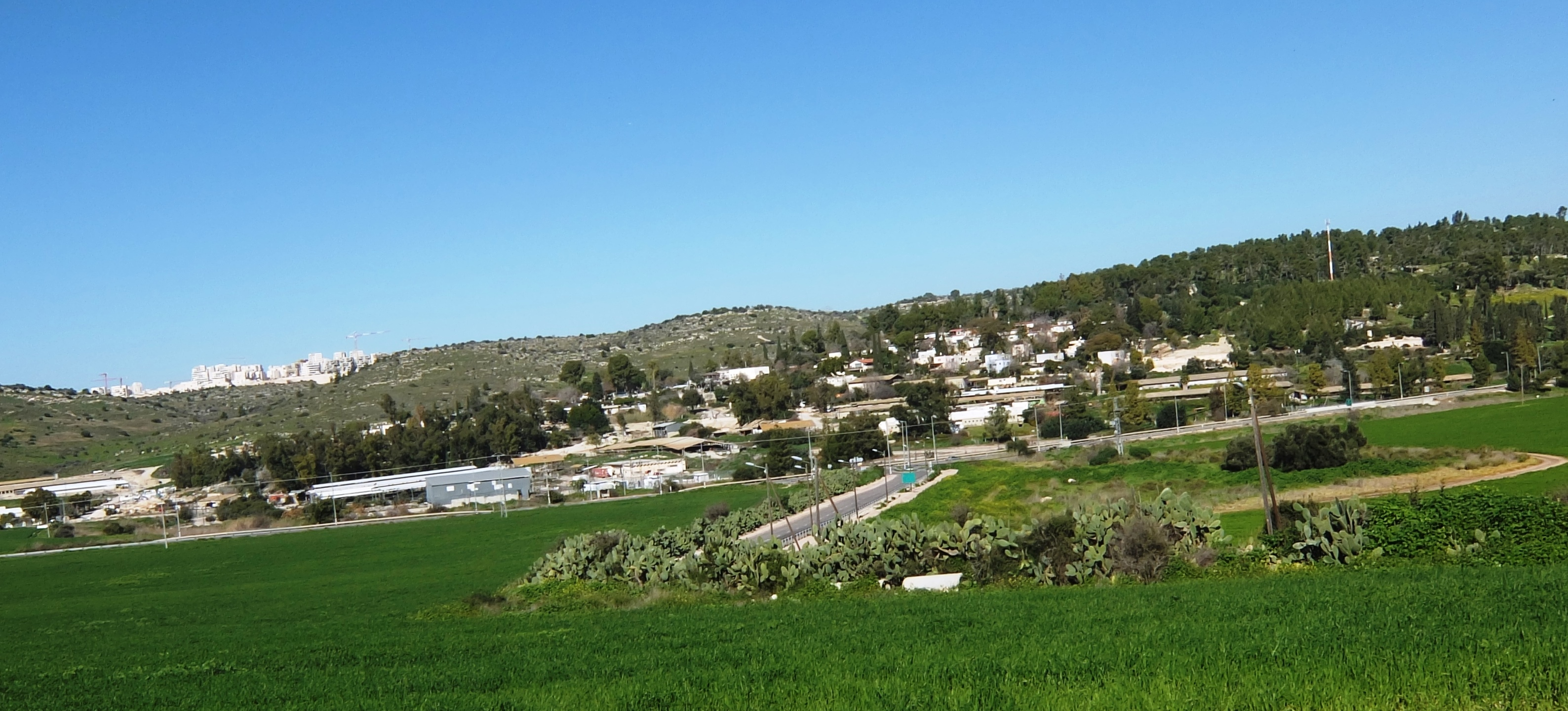 General view of Kibbutz Netiv HaLame He, Israel